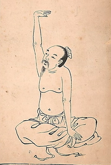 An edited version of Image:Baduanjin qigong.jpg